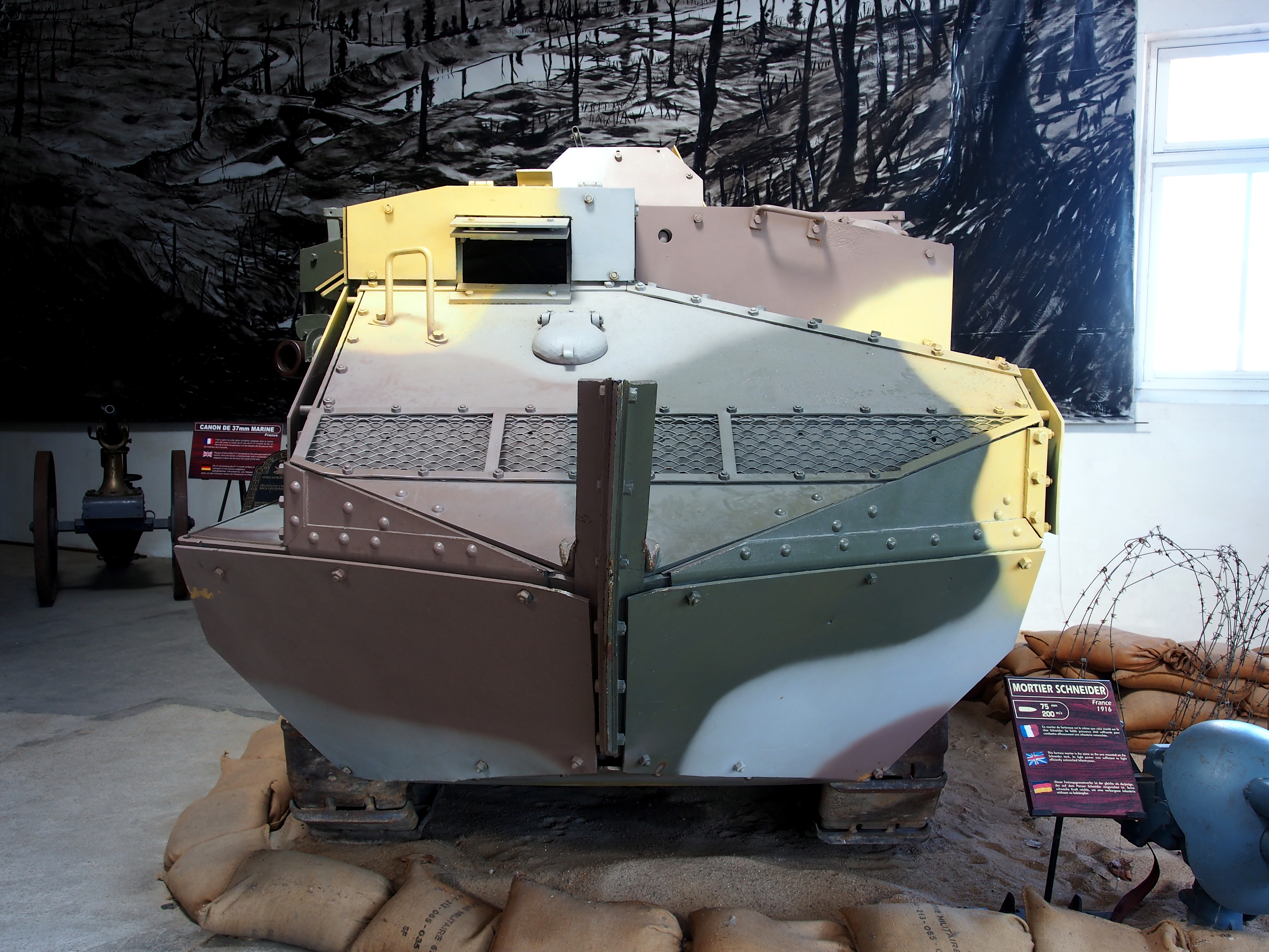 Photographed in the Musée des Blindés, France.